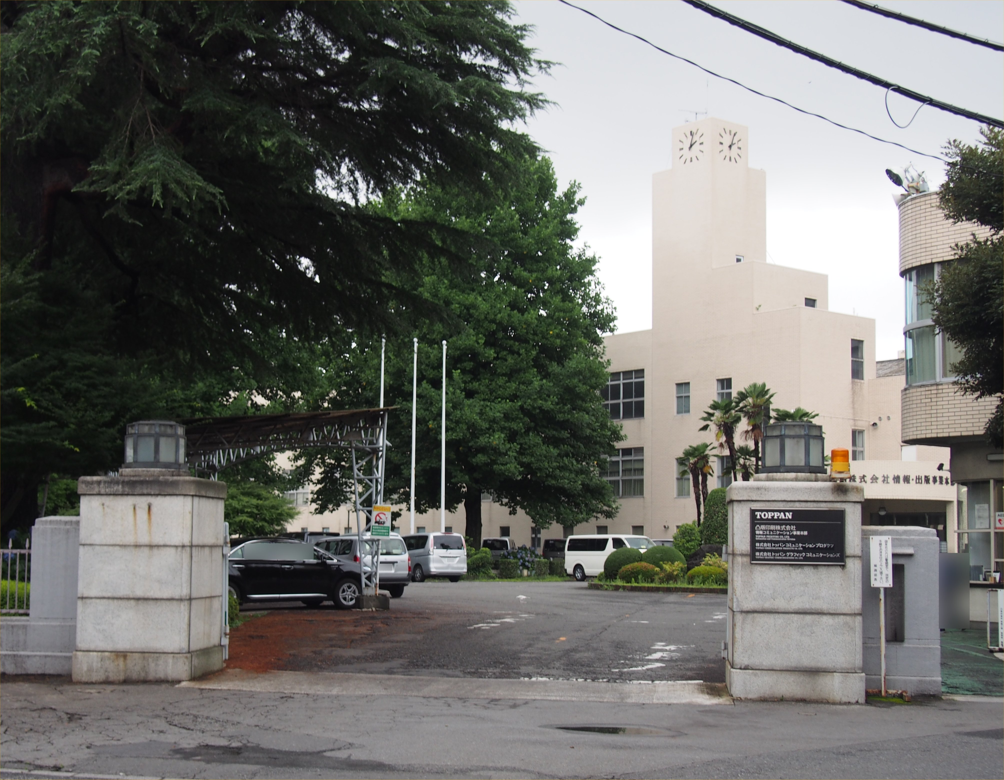 A photo of the entrance of Toppan Printing Itabashi Factory,Shimura,Itabashi-ku,Tokyo,Japan.